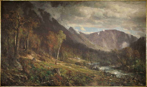 Digital image of an 1867 painting by Thomas Hill, (September 11, 1829 – June 30, 1908) in the collection of the New Hampshire Historical Society.